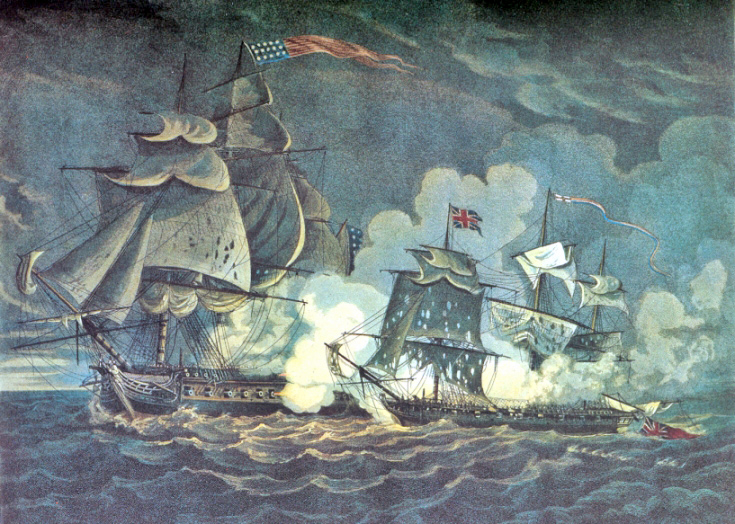 The Little Belt, Sloop of War, Captn. Bingham nobly supporting the Honor of the British Flag, against the President, United States Frigate, Commodore Rogers, May 15th, 1811.: this art was engraved and published by Edward Orme in London, 1811.[1][2]